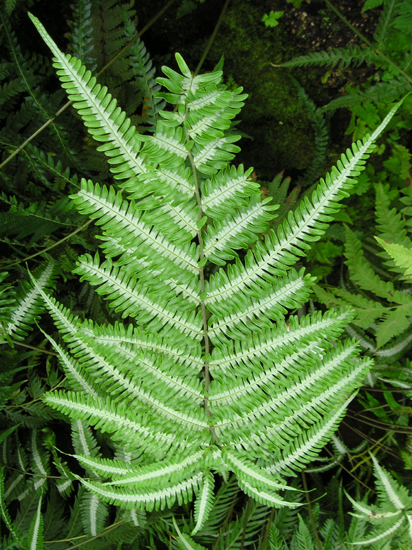 Description: Pteris argyrea (Pteridaceae) Place: Old botanical garden at Göttingen, Germany Source: self-made Photographer: Frank Schulenburg